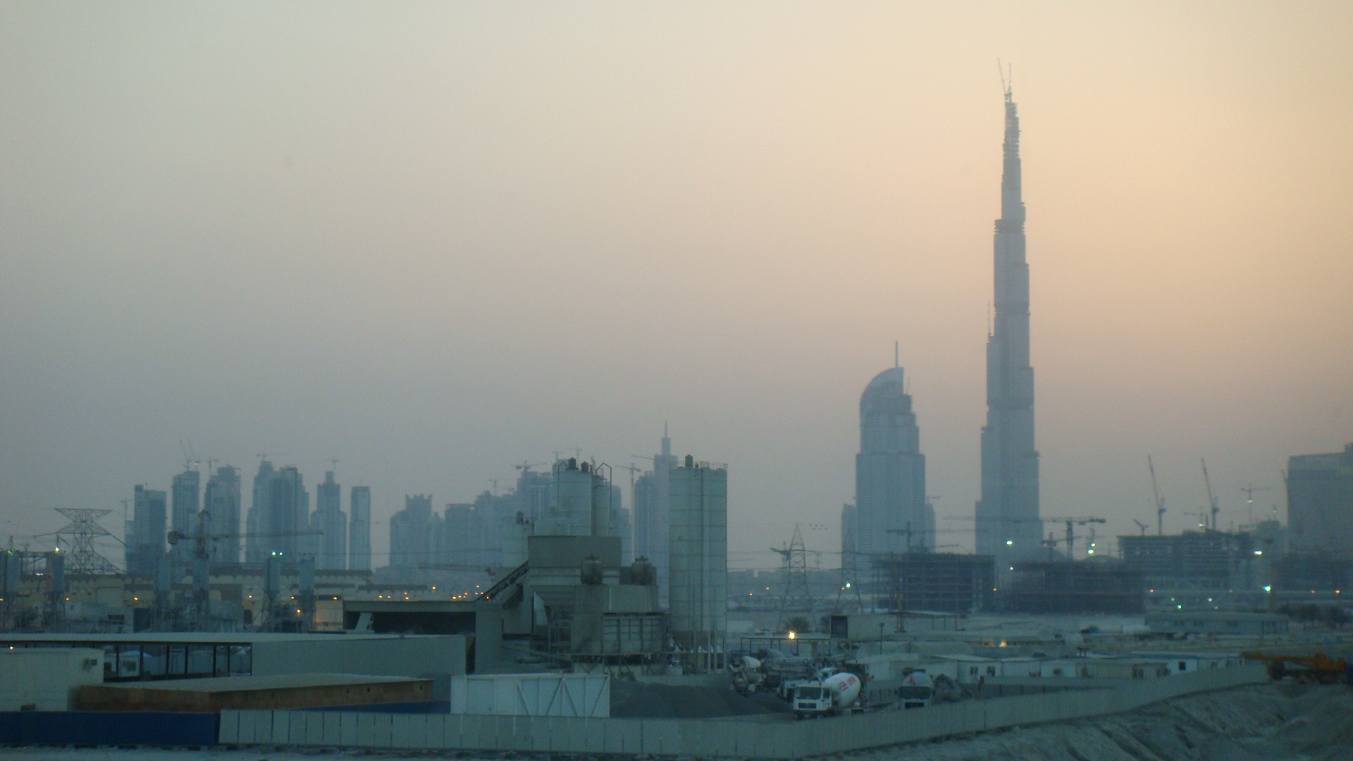 A small comparison of the Burj Khalifa (far right) and other buildings at dusk.